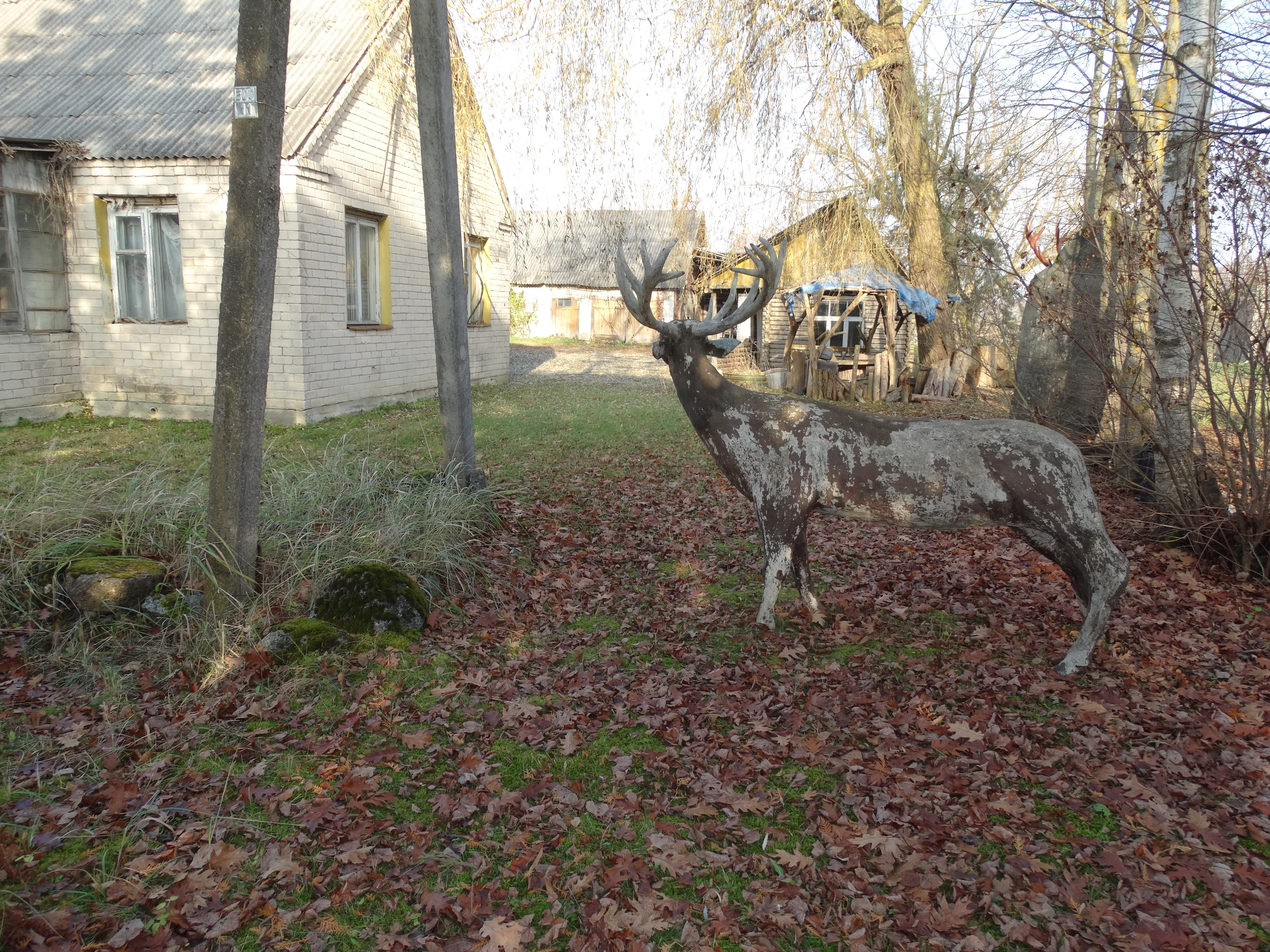 Porijai, Pasvalys district, Lithuania